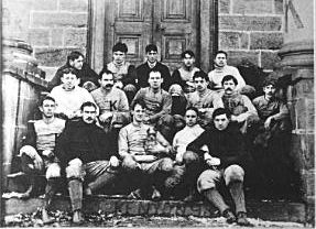 1893 Kenyon College football team captained by T. R. Hazzard